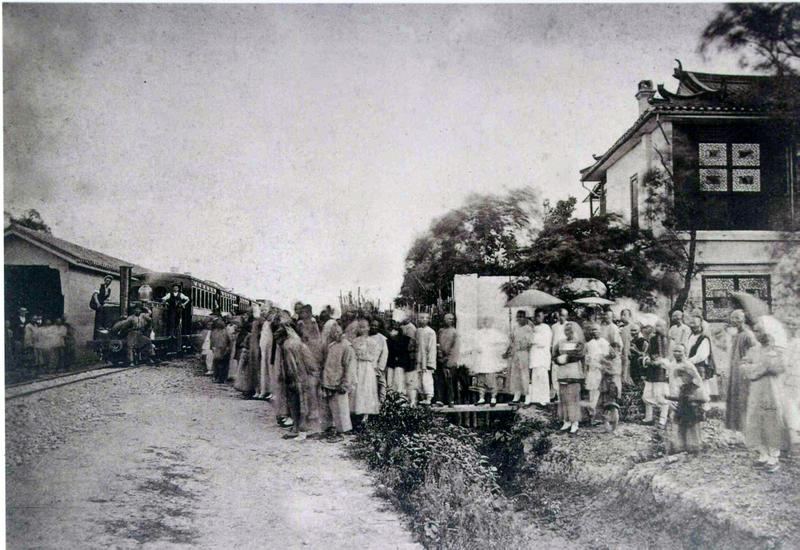 Opening Day Ceremony of the Woosung Road, 1876. [Present day site: Tanggu Rd & Henan Rd, Zhabei District, Shanghai.]